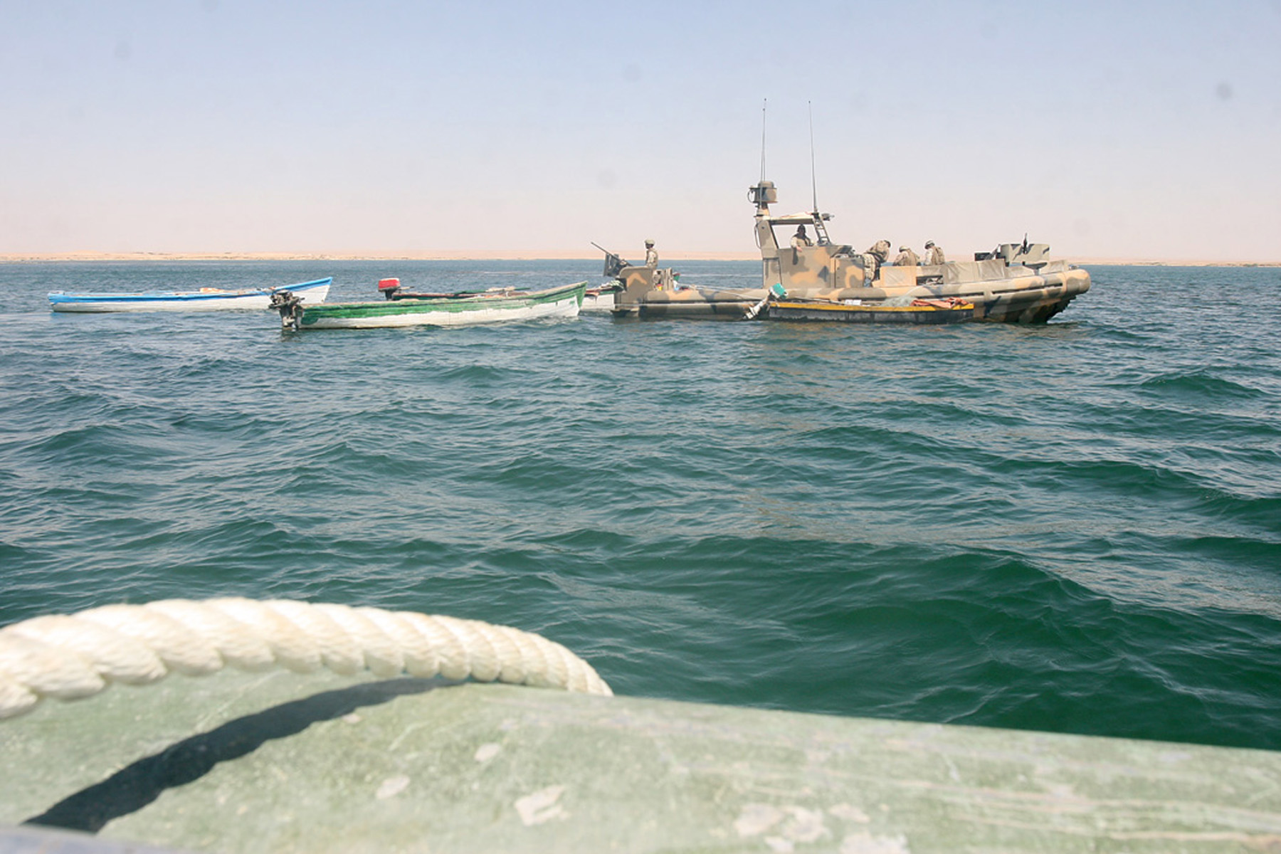 HADITHA DAM, Iraq, (Sept. 16, 2007) – A Riverine Patrol Boat with Riverine Squadron 1, Riverine Group 1, Navy Expeditionary Combat Command, in support of Regimental Combat Team 2, tows several boats the riverines seized in support of the new 24-hour curfew enforcement of the waterway near the dam. The riverines warned locals of the new curfew for several days before seizing the boats of repeat curfew offenders. Official Marine Corps Photo By Cpl. Ryan C. Heiser.